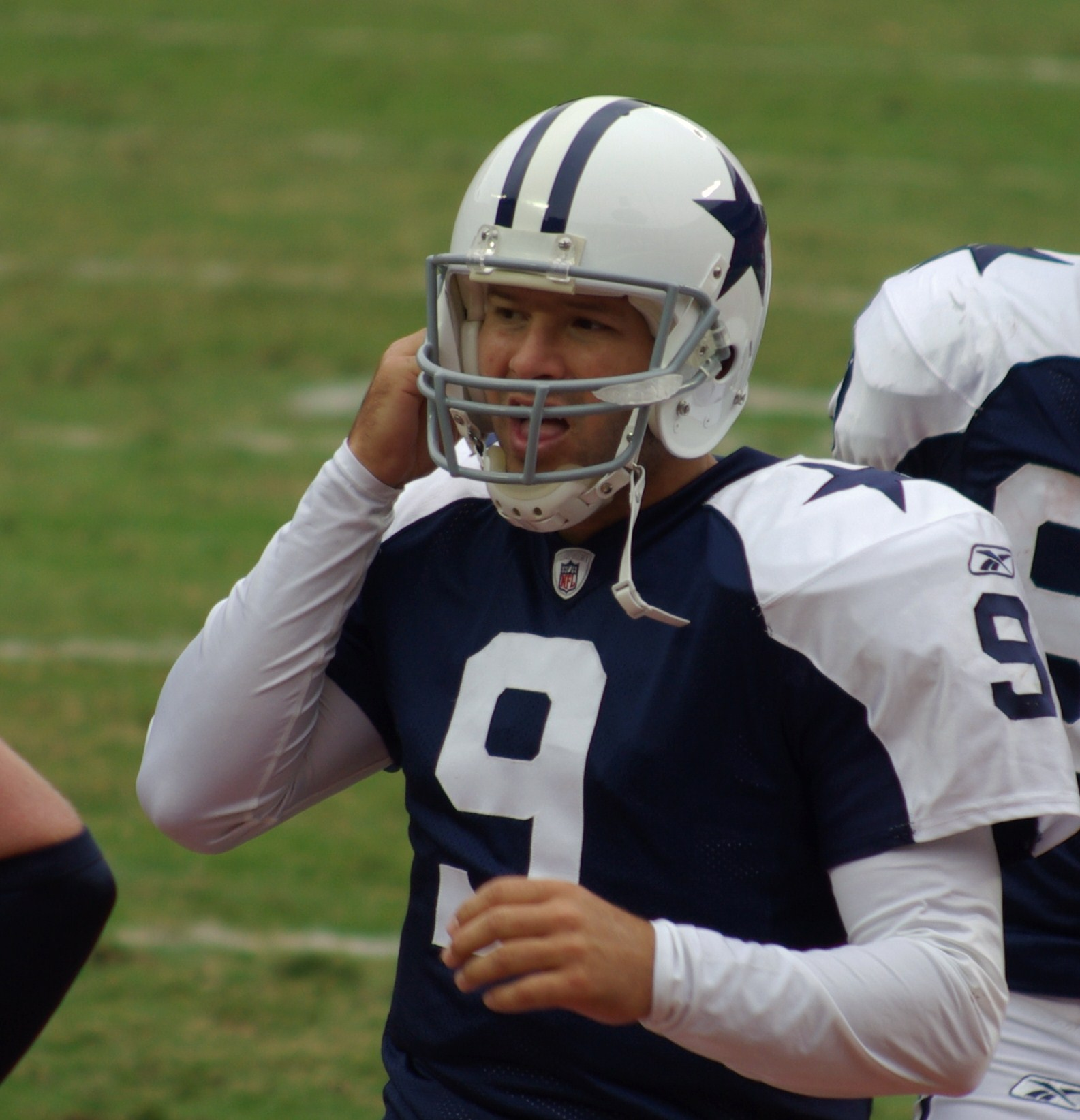 Tony Romo - 2009 - Dallas Cowboys vs. Kansas City Chiefs